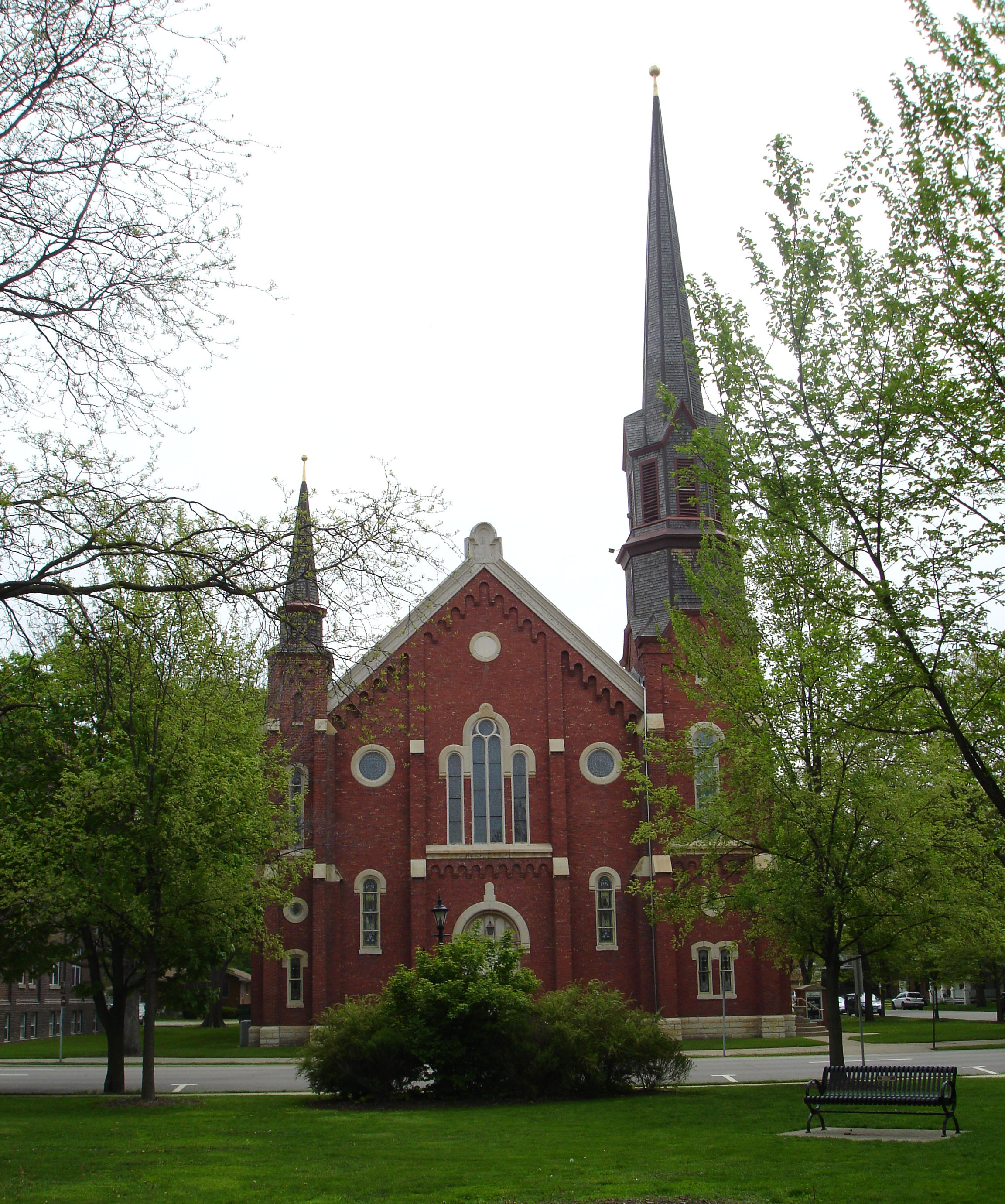 Ottawa Congregational Church in Ottawa, Illinois, USA, part of the Washington Park Historic District, U.S. National Register of Historic Places.